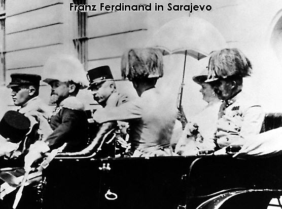 Franz Ferdinand and his wife Sophie leave the Sarajevo Guildhall after reading a speech.